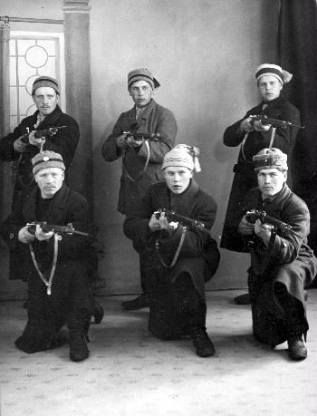 Red soldiers